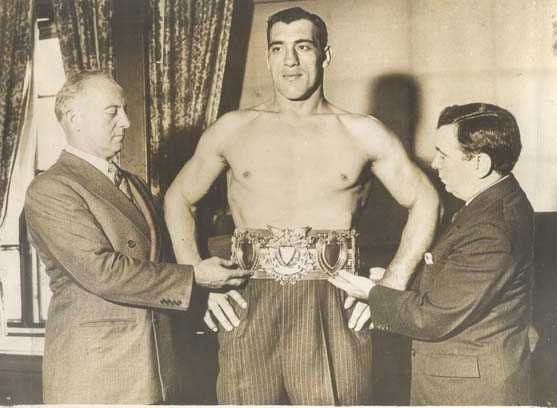 Primo Carnera receives the world champion belt